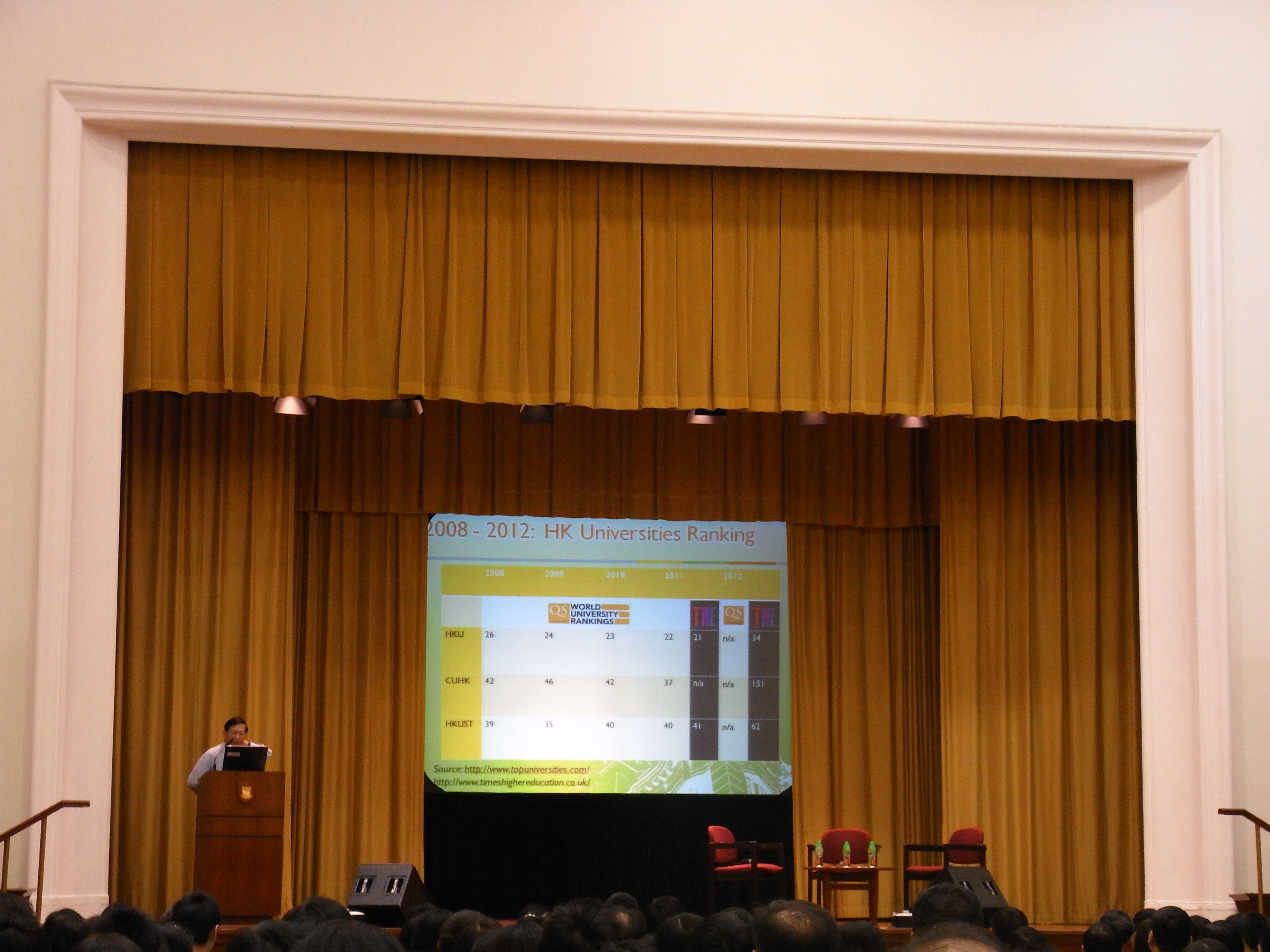 香港大學, Main Building of HKU, Hong Kong